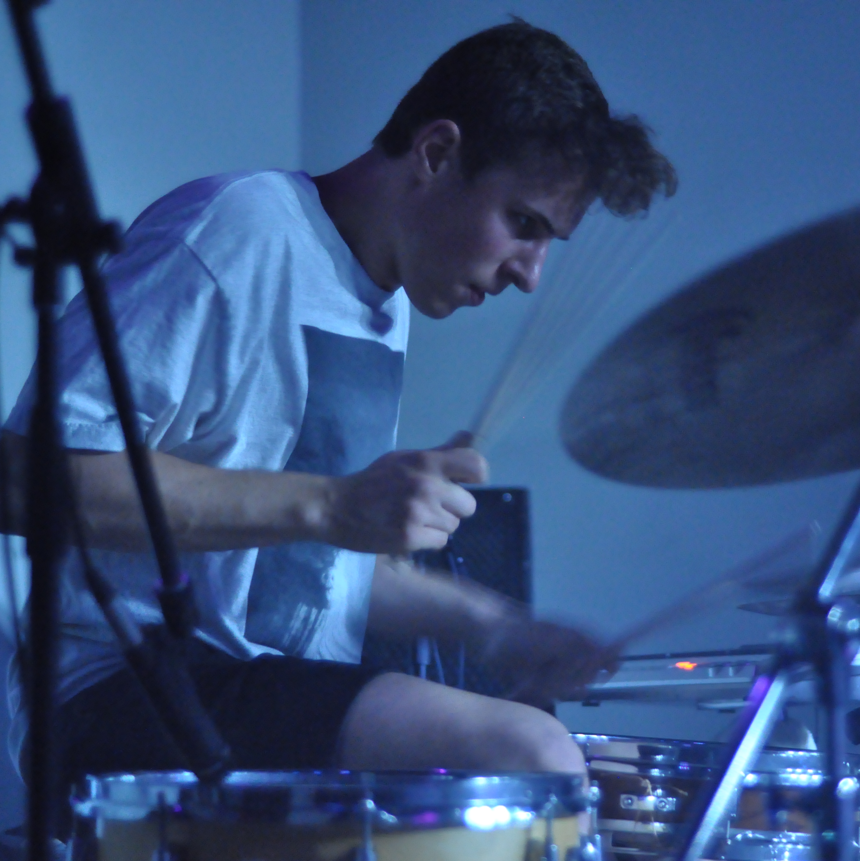 Photo Credit - Dimitri Kouri